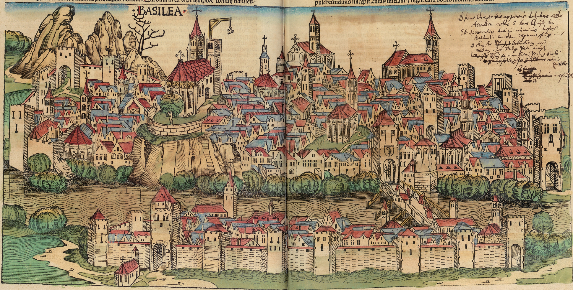 Basel, Wood cut from the Nuremberg Chronicle (Latin copy in Sao Paulo)